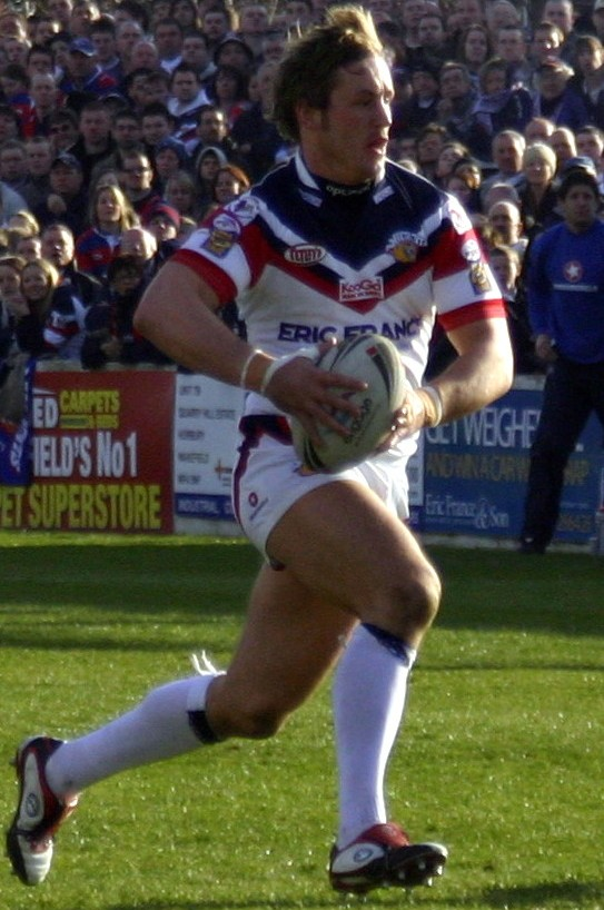 Oliver Wilkes